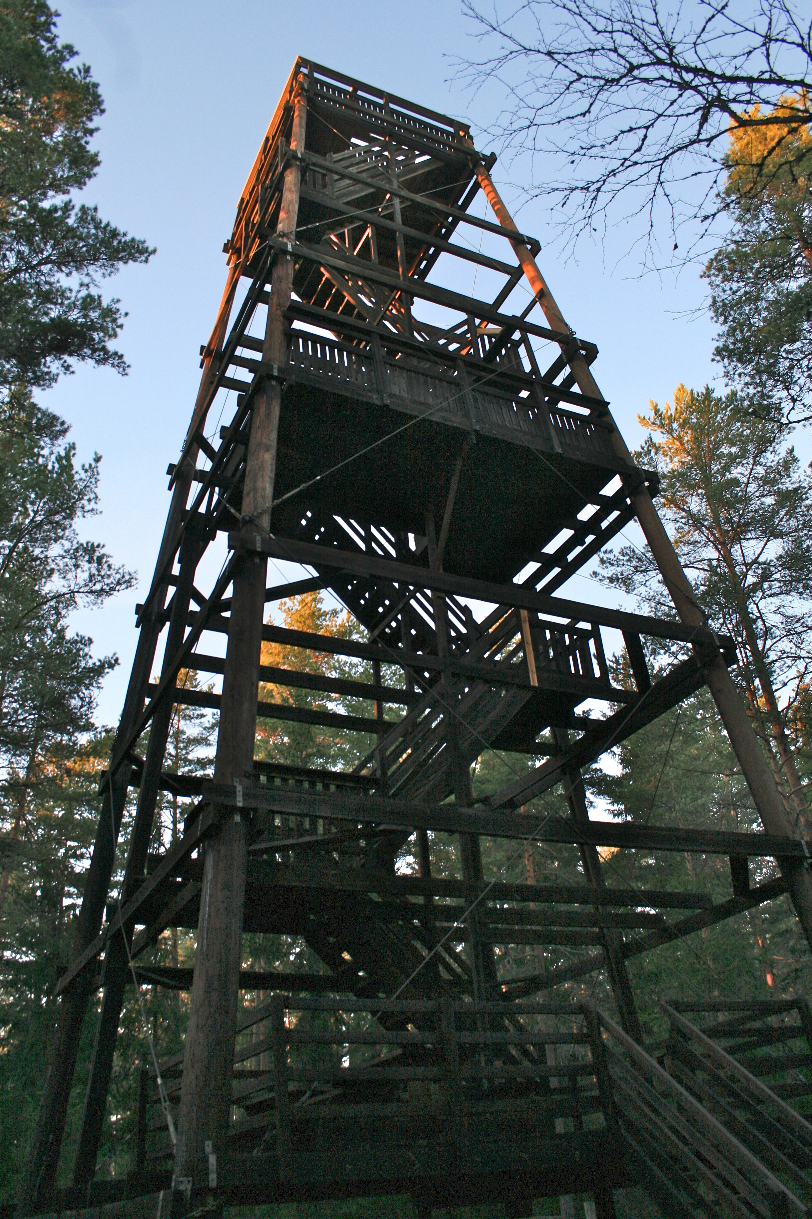 Skekarsbo observation tower, Färnebofjärden national park